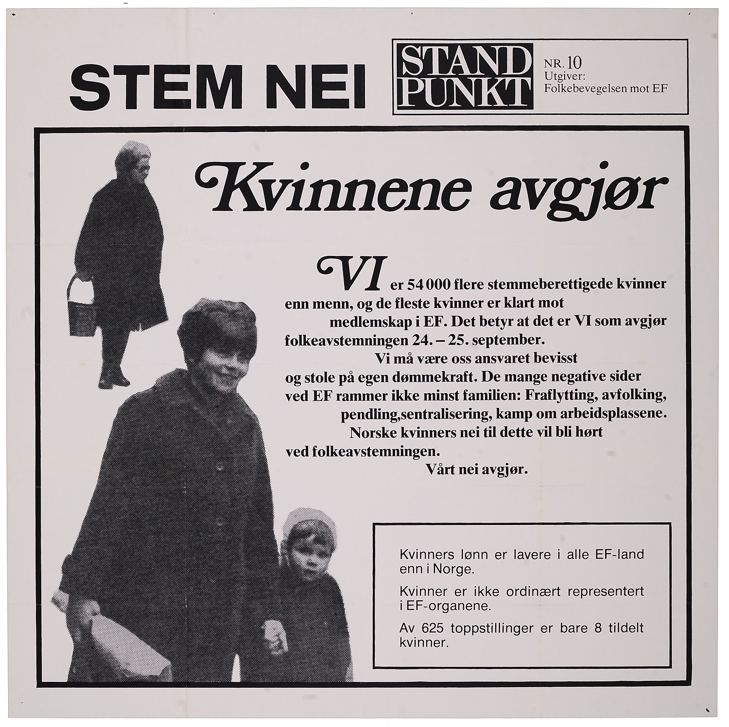 Image from National Archives of Norway's Flickr-Album "Protest" (all images marked with "No known copyright restrictions")